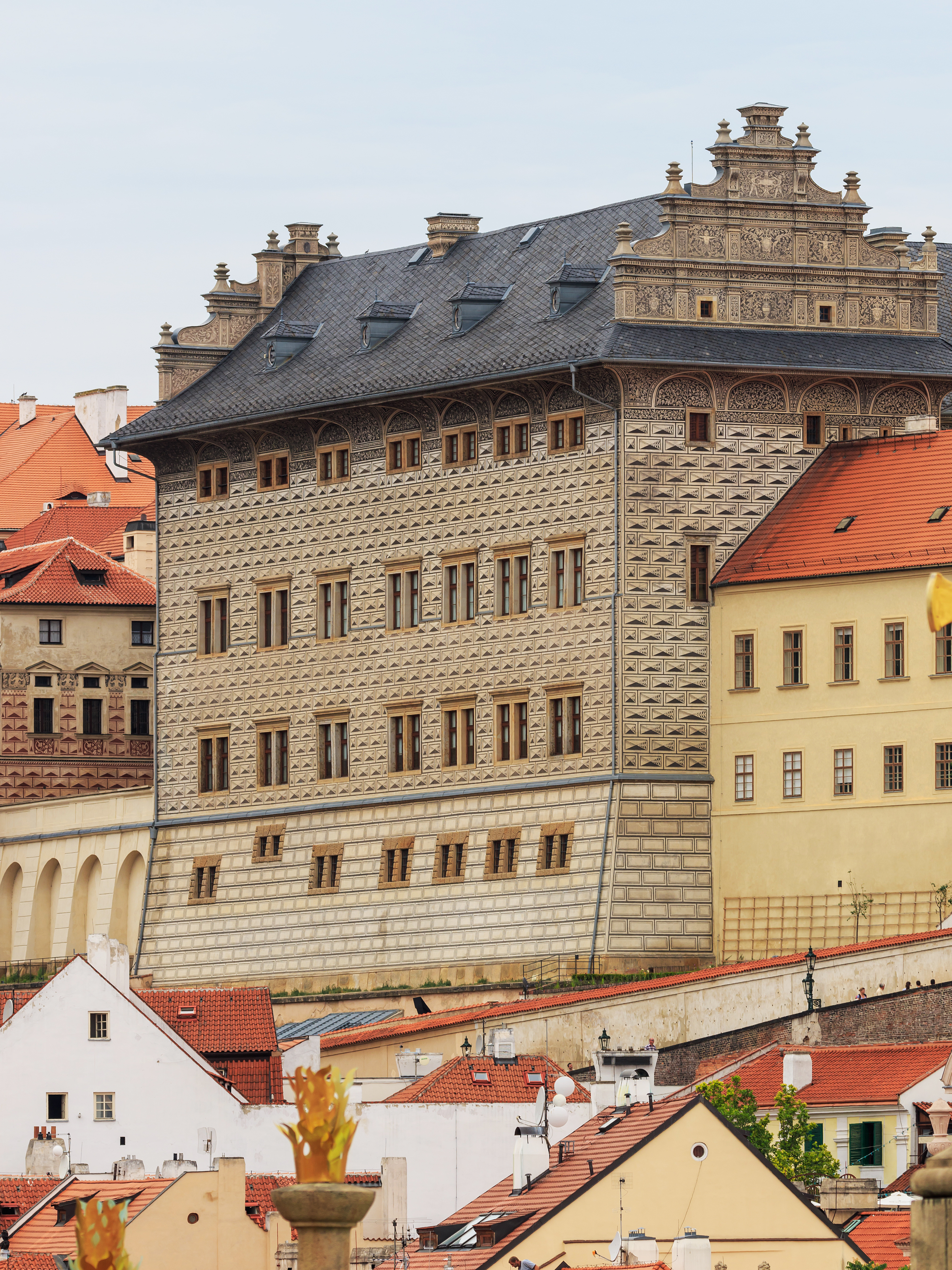 View from St.Nicholas Church in Lesser Town in Prague (Czech Republic) – Schwarzenberg Palace